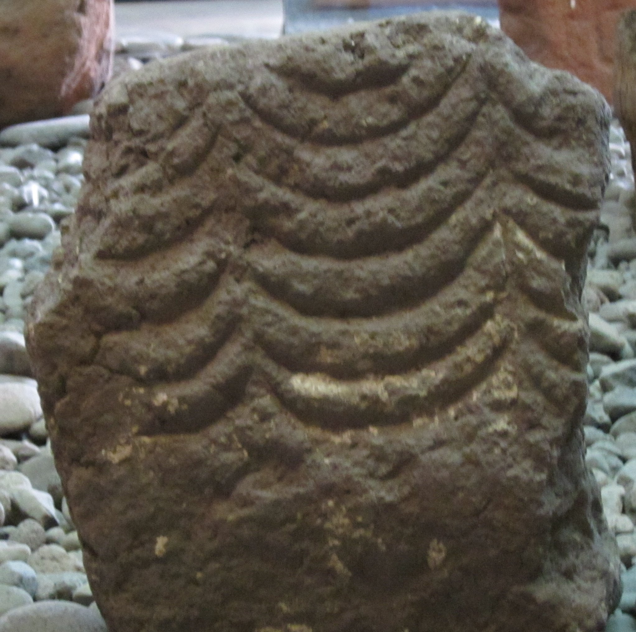 Petroglyph, tuff, from Raivavae, Austral Islands in French Polynesia, Musée de Tahiti et des Îles